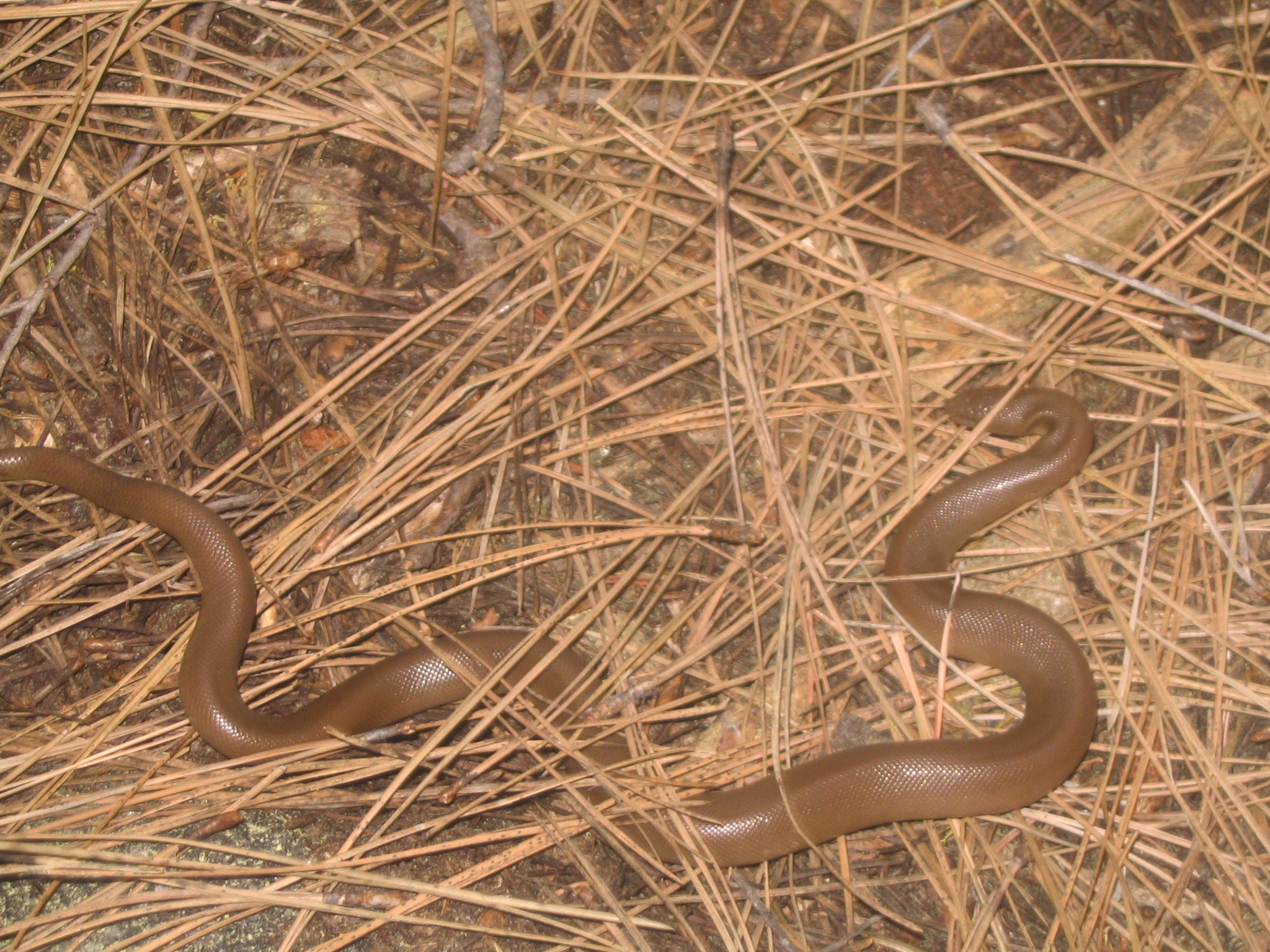 A Rubber Boa on straw.